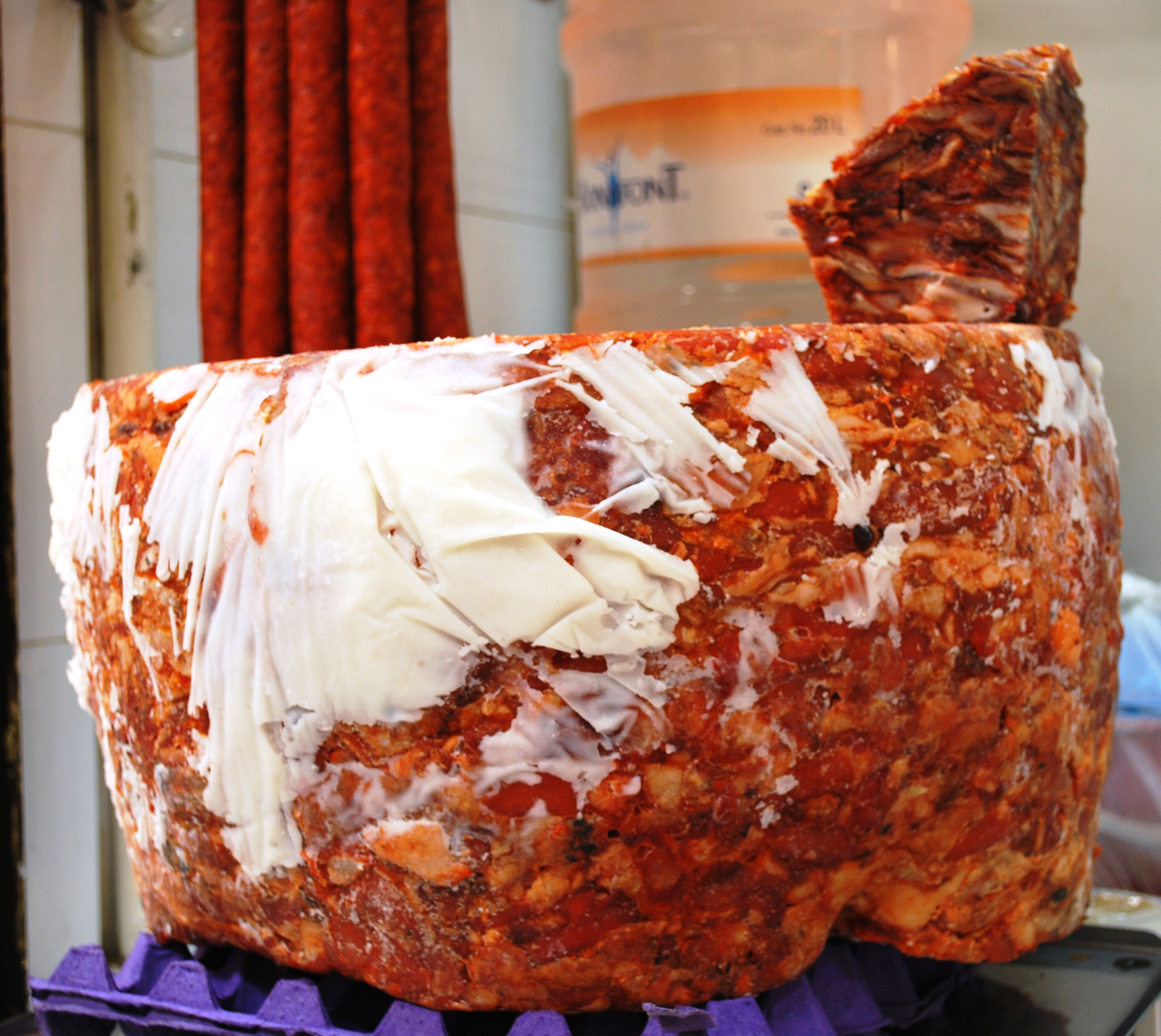 Pressed "chicharron" (pig skin) for sale at a market in Tenango del Valle, Mexico State